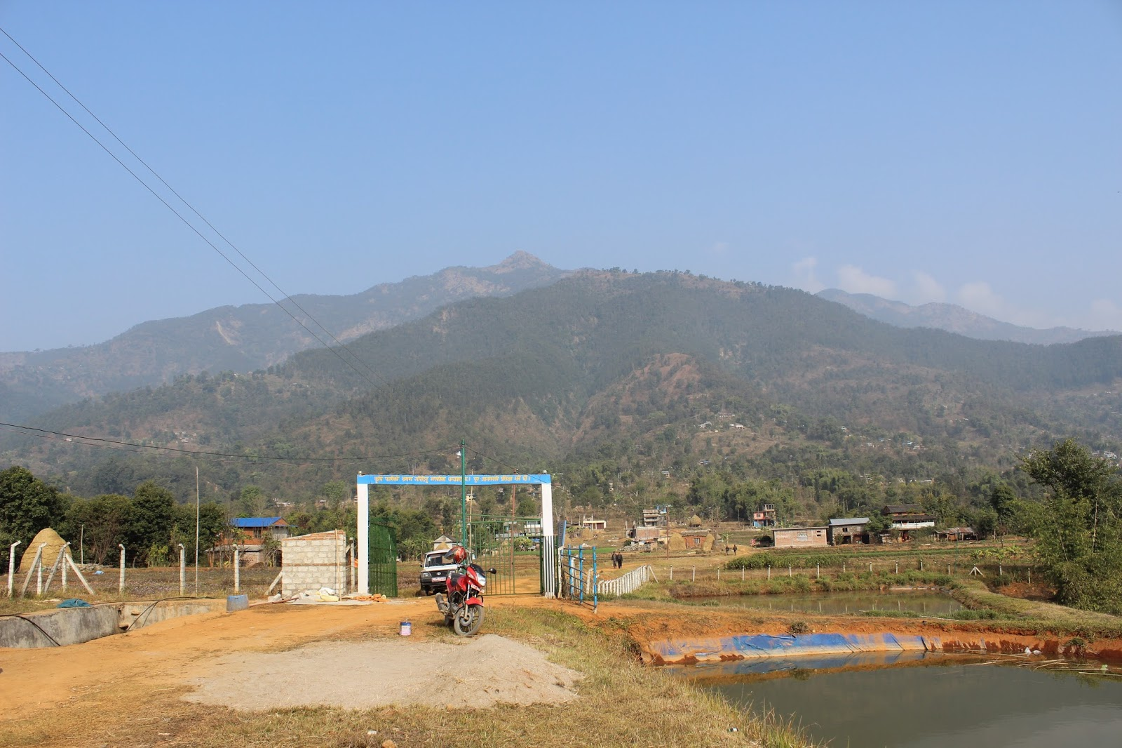 Programme at Rainas municipality.